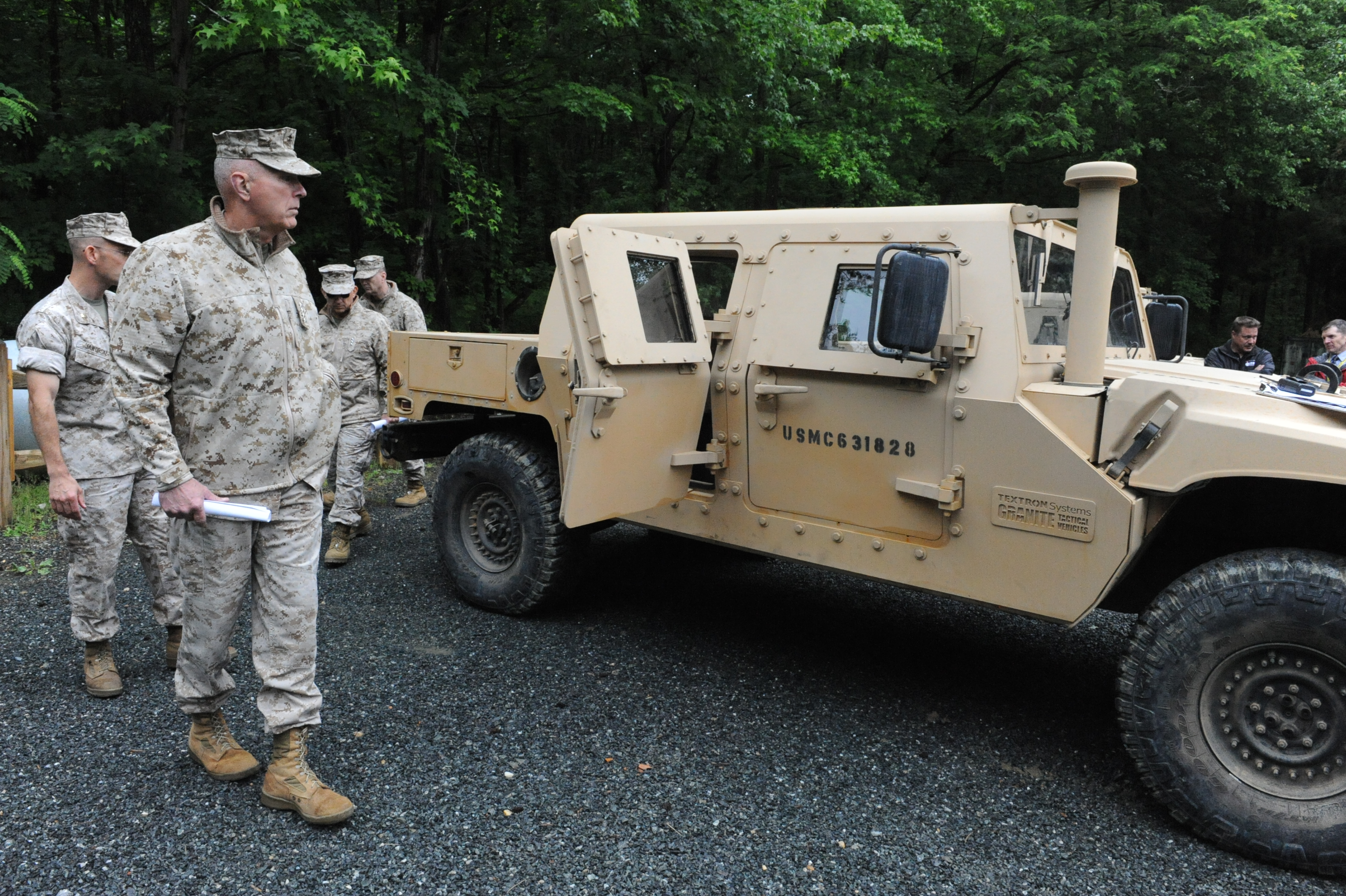 Commandant of the Marine Corps Gen. James T. Conway looks over the HUMVEE capsule with Marine Corps Warfighting Lab personnel at Quantico, Va. May 18, 2010